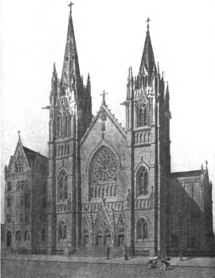 Saint Raphael's Church, 502—510 West 41st Street, near the southwest corner of 10th Avenue, New York City.